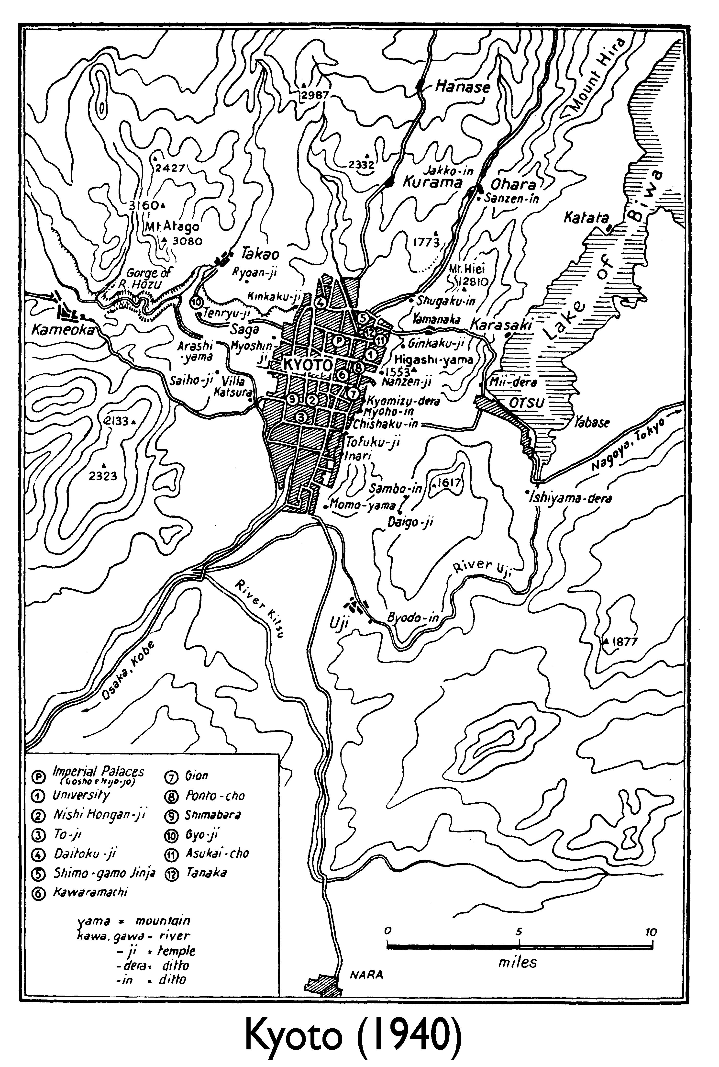 Map of Kyoto, Japan about 1940